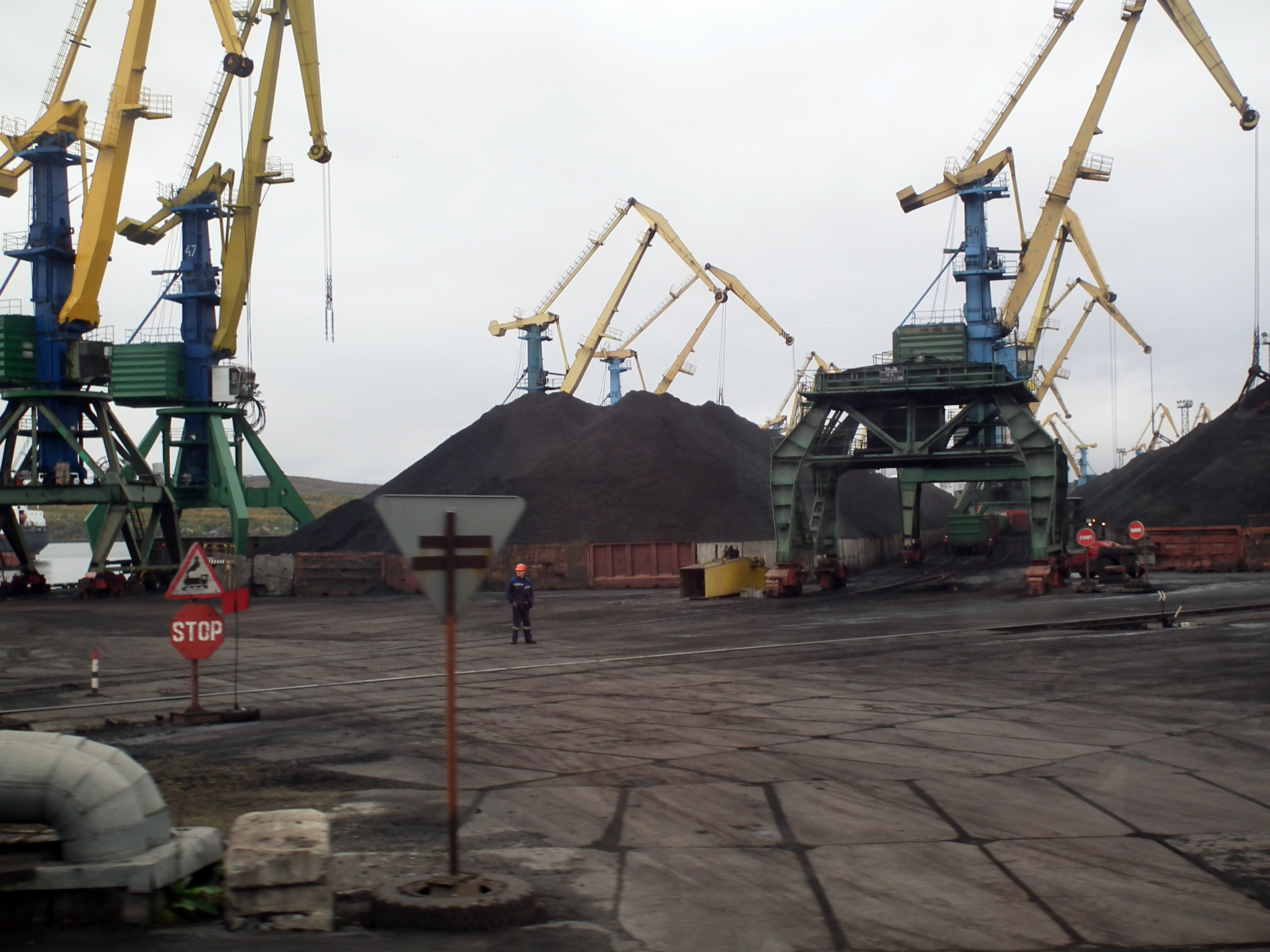 Murmansk harbour 2010, loading coal